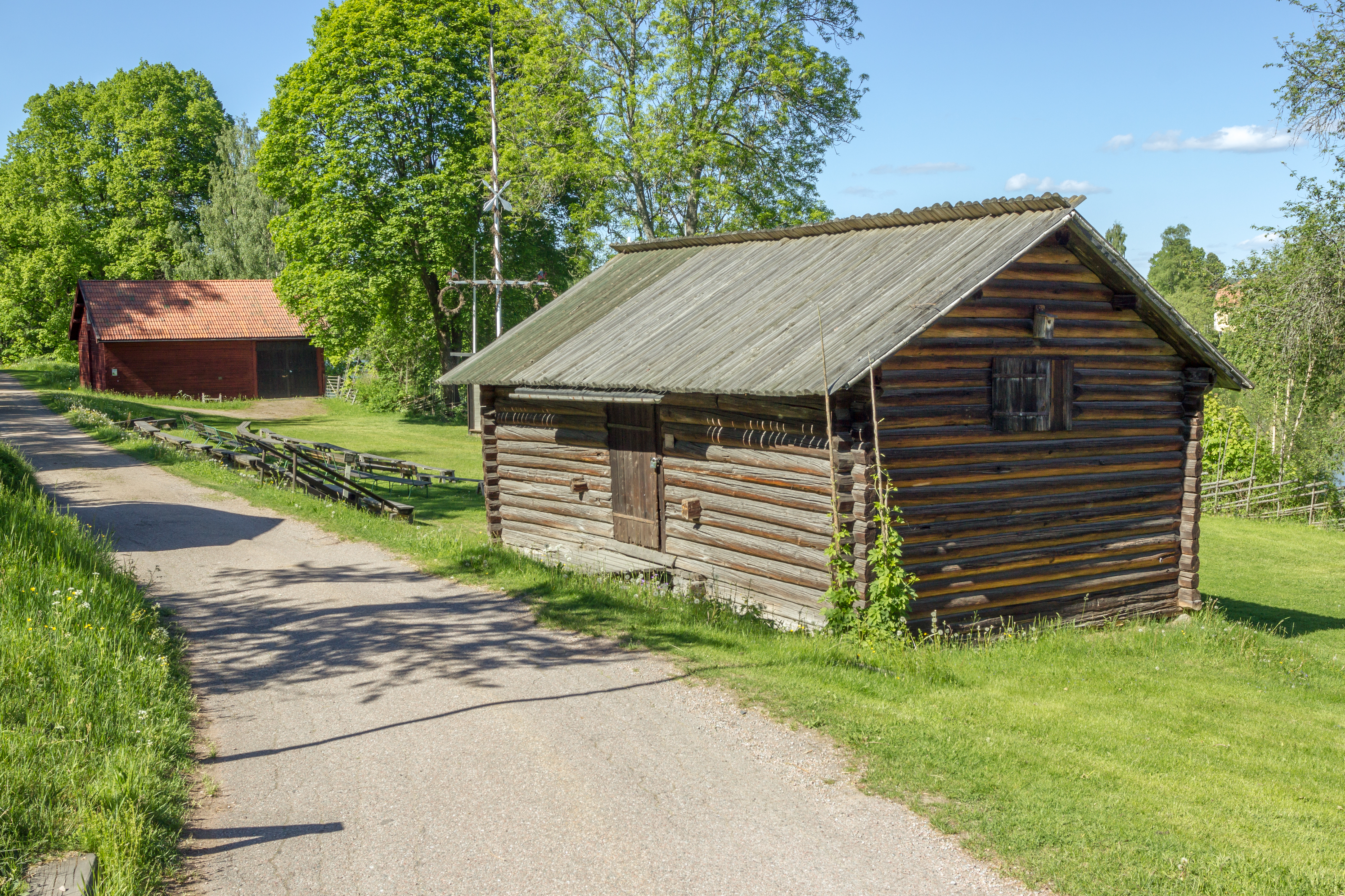 Hedemora gammelgård buildings trösklogen, and körlogen.